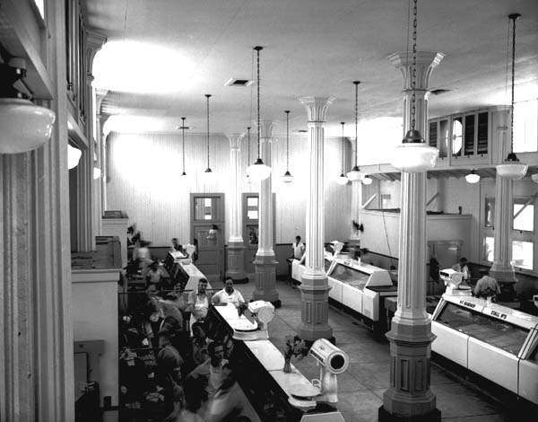 Interior view of St. Roch Market, New Orleans, 1938, after WPA renovation. WPA photo. Original caption: "The St. Roch Market (St. Roch and St. Claude Avenues), more than 100 years old, which has been completely reconditioned and is now in use. St. Roch Market, one of the four markets repaired a nd modernized under the city's Market Rehabilitation program. Two other markets were constructed under the program. Interior."